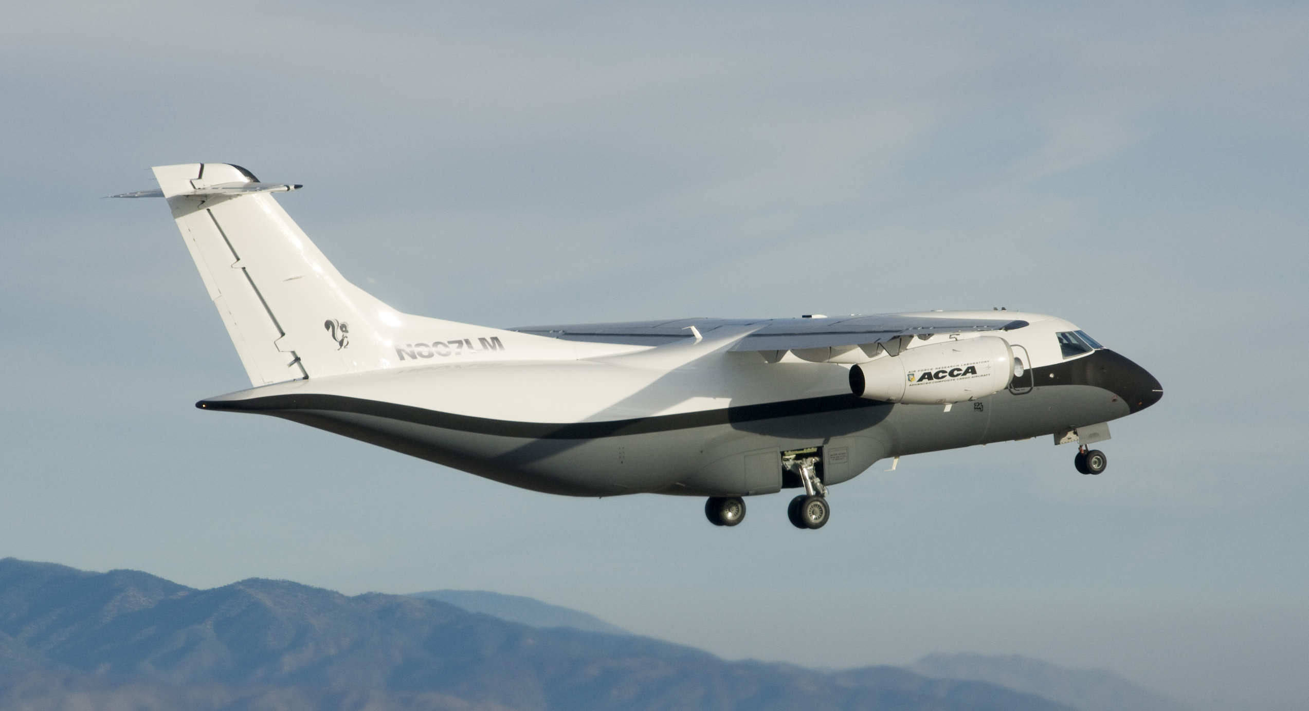 The Lockheed Martin X-55 Advanced Composite Cargo Aircraft (ACCA) made its first test flight June 2 from Air Force Plant 42 in Palmdale, Calif. The ACCA is proof of concept technology demonstrator for advanced composite manufacturing processes in a full-scale, certified aircraft. It was developed by the Air Force Research Laboratory and Lockheed Martin.